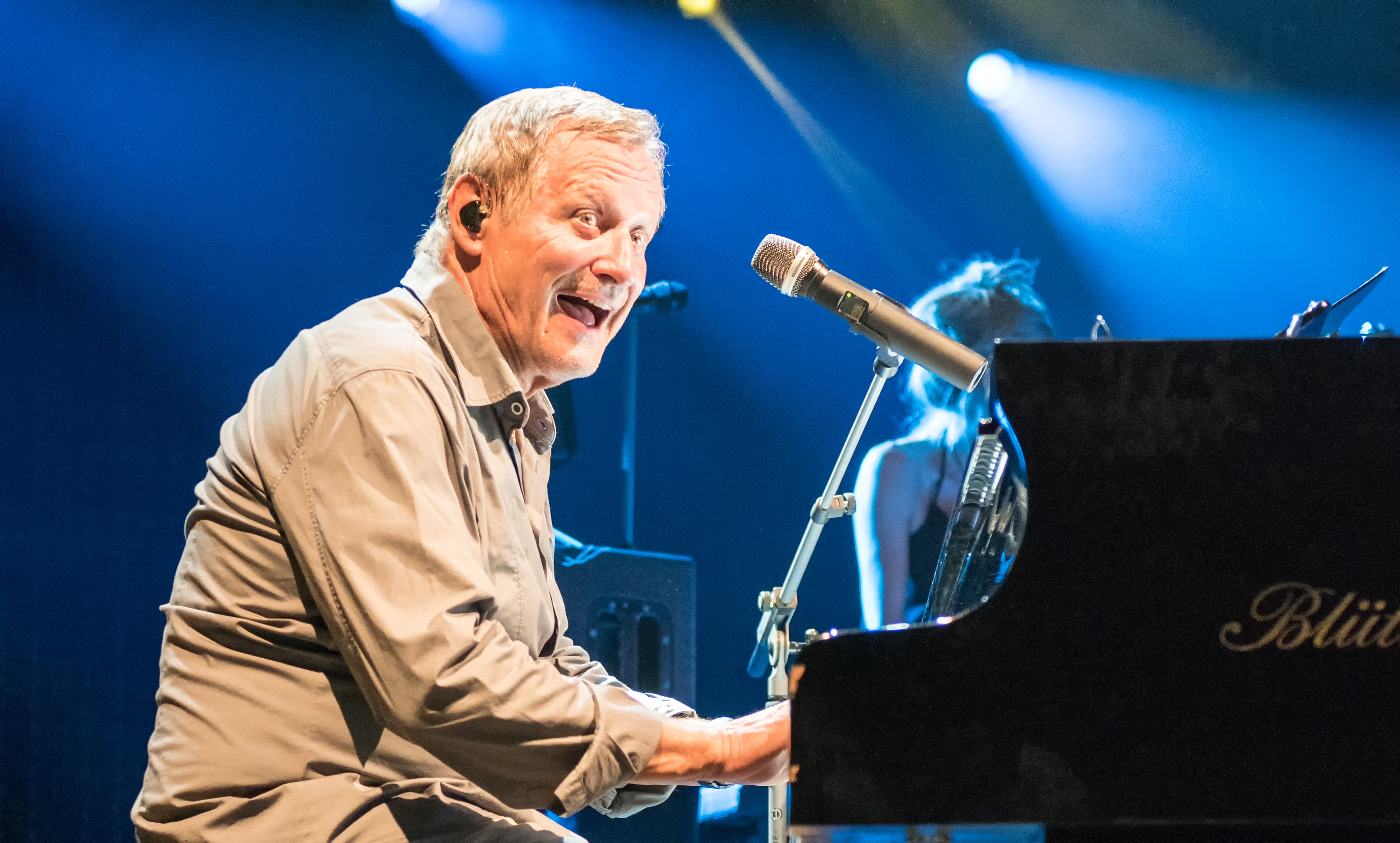 Konstantin Wecker in Munich (Tollwood Festival)